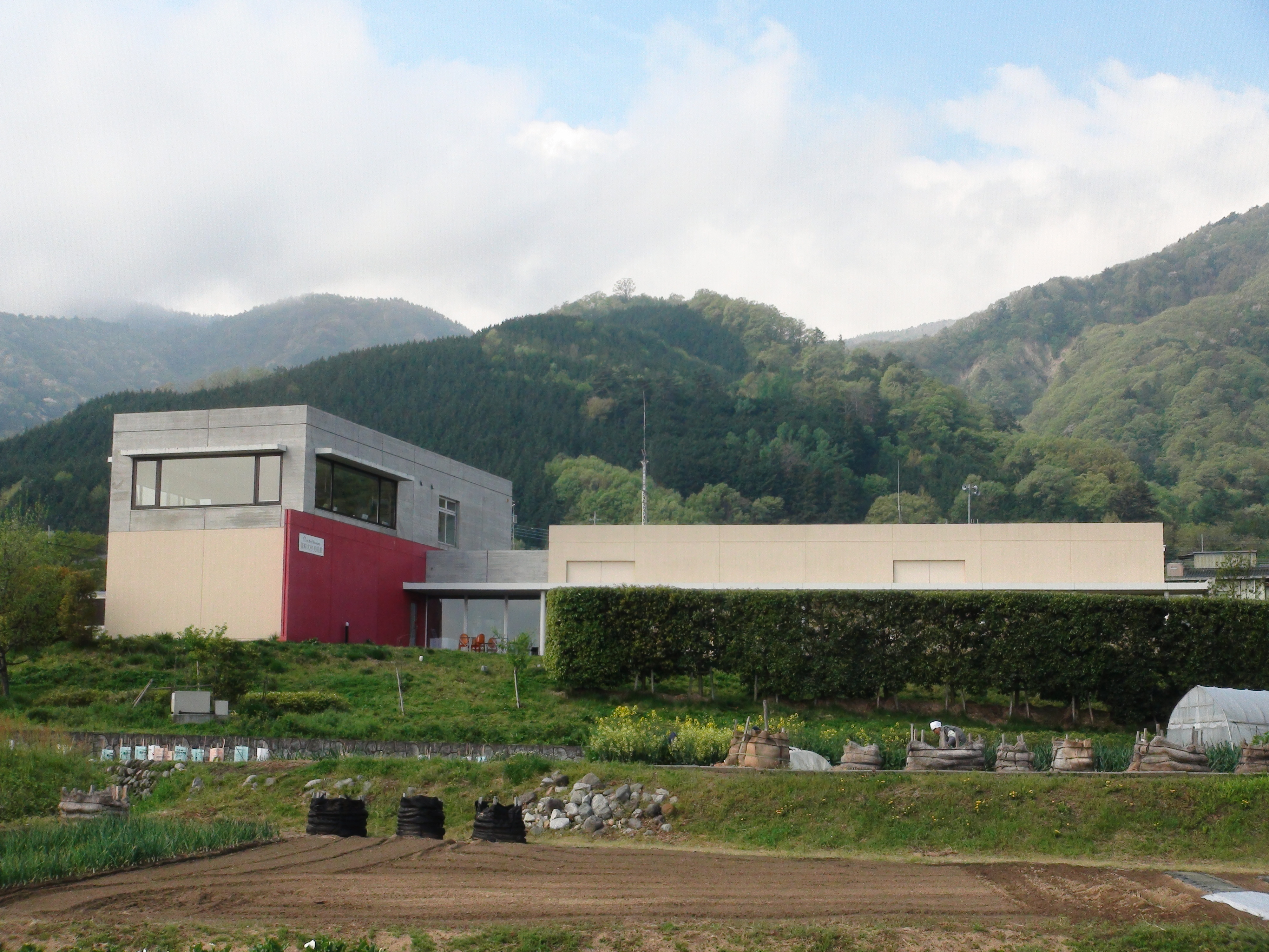 Nirasaki-Omura-Artmuseum A.JPG